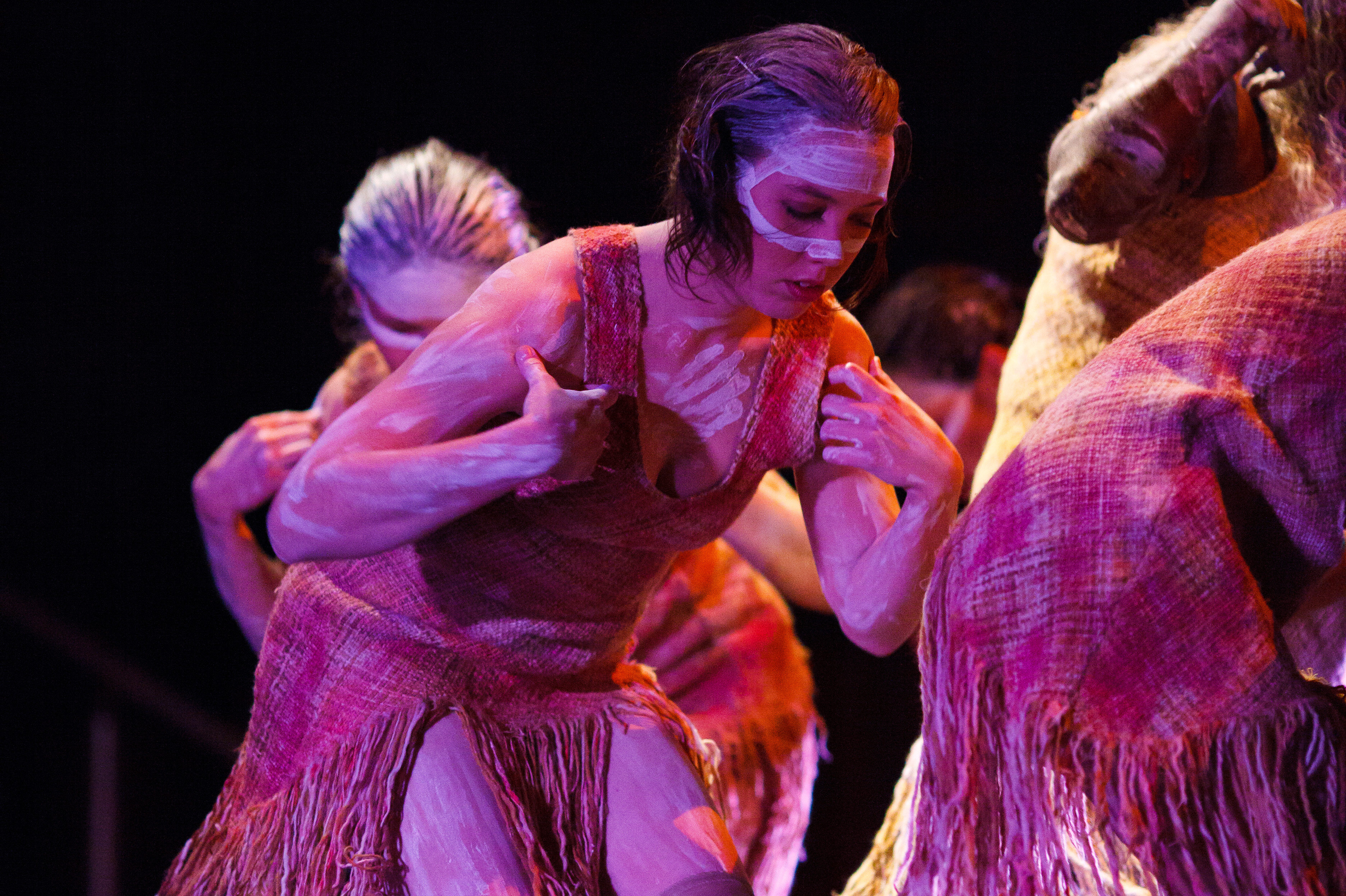 Australian Human Rights Commission Peak Human Rights event at Sydney Town Hall on 23 May 2011, concluded with a performance by Bangarra Dance Theatre. For more information